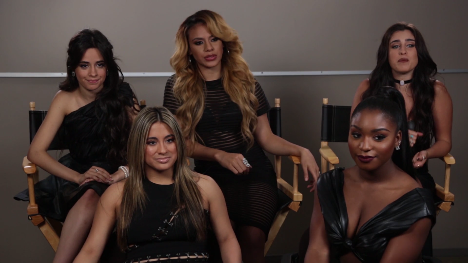 Fifth Harmony in interview for Vevo in 2015